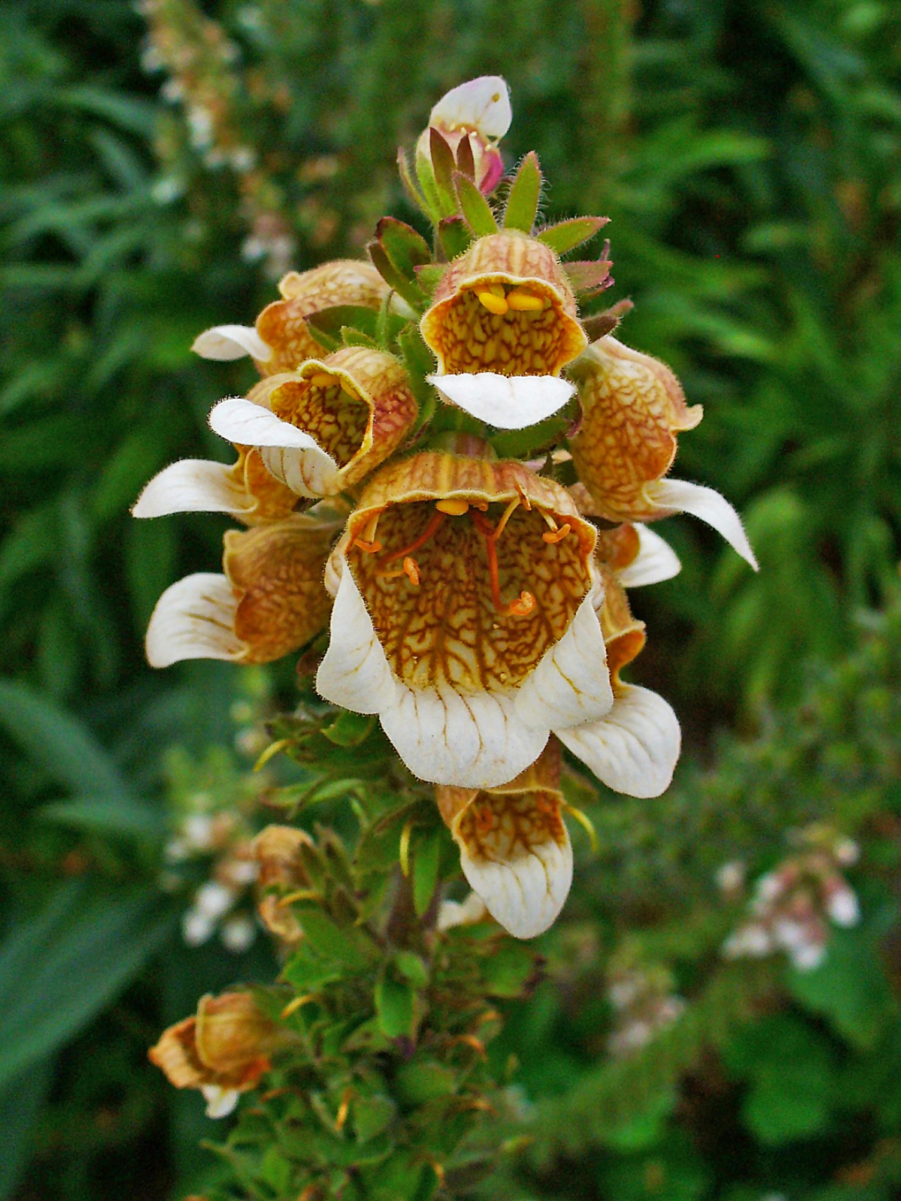 Digitalis lanata, Plantaginaceae, Woolly Foxglove, Grecian Foxglove, inflorescence with pseudo-peloria. The leaves are used in homeopathy as remedy: Digitalis lanata (Dig-l.)